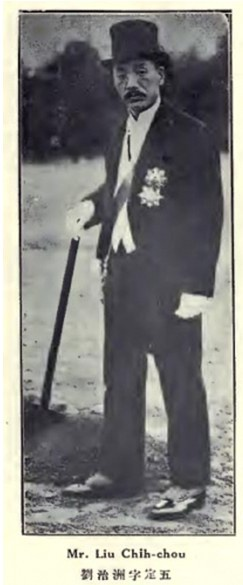 Liu Zhizhou (1882-1963)